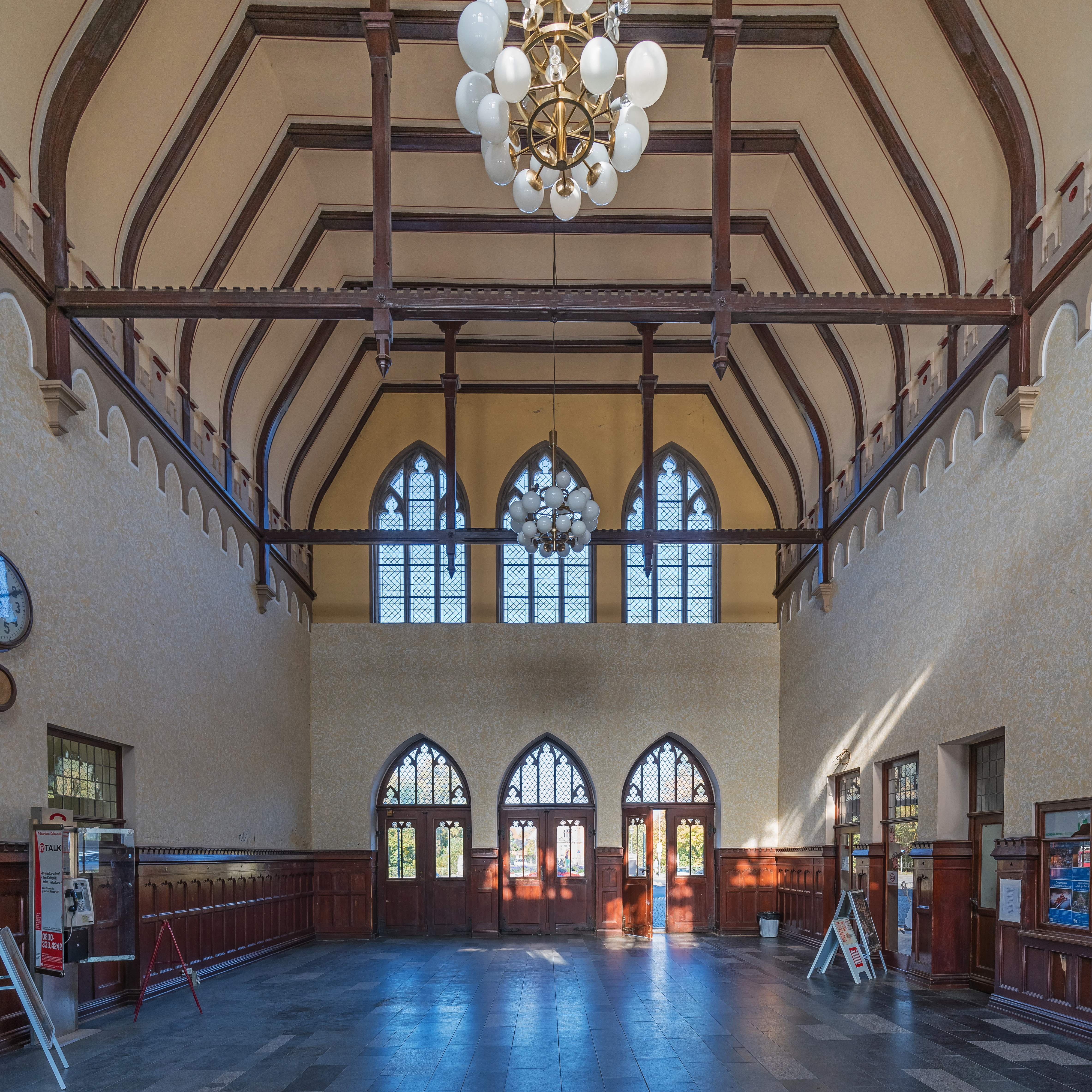 Railway station in Quedlinburg, Germany